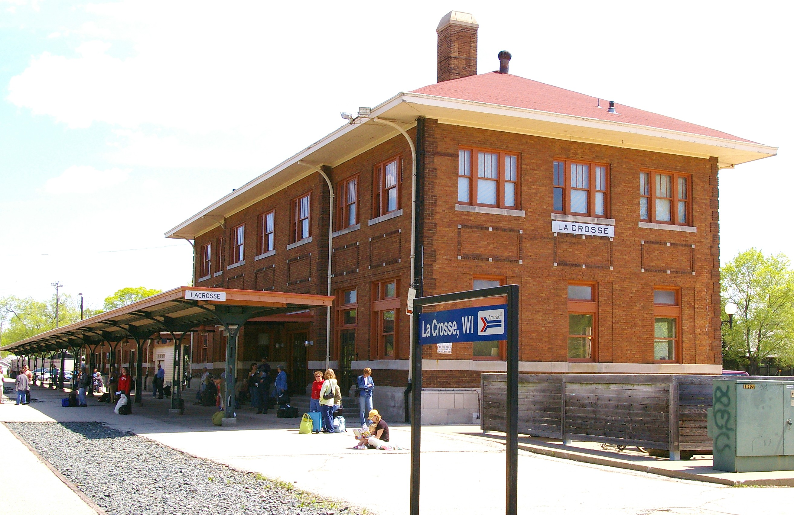 Amtrak station in La Crosse, Wisconsin, built in 1926 by The Milwaukee Road.